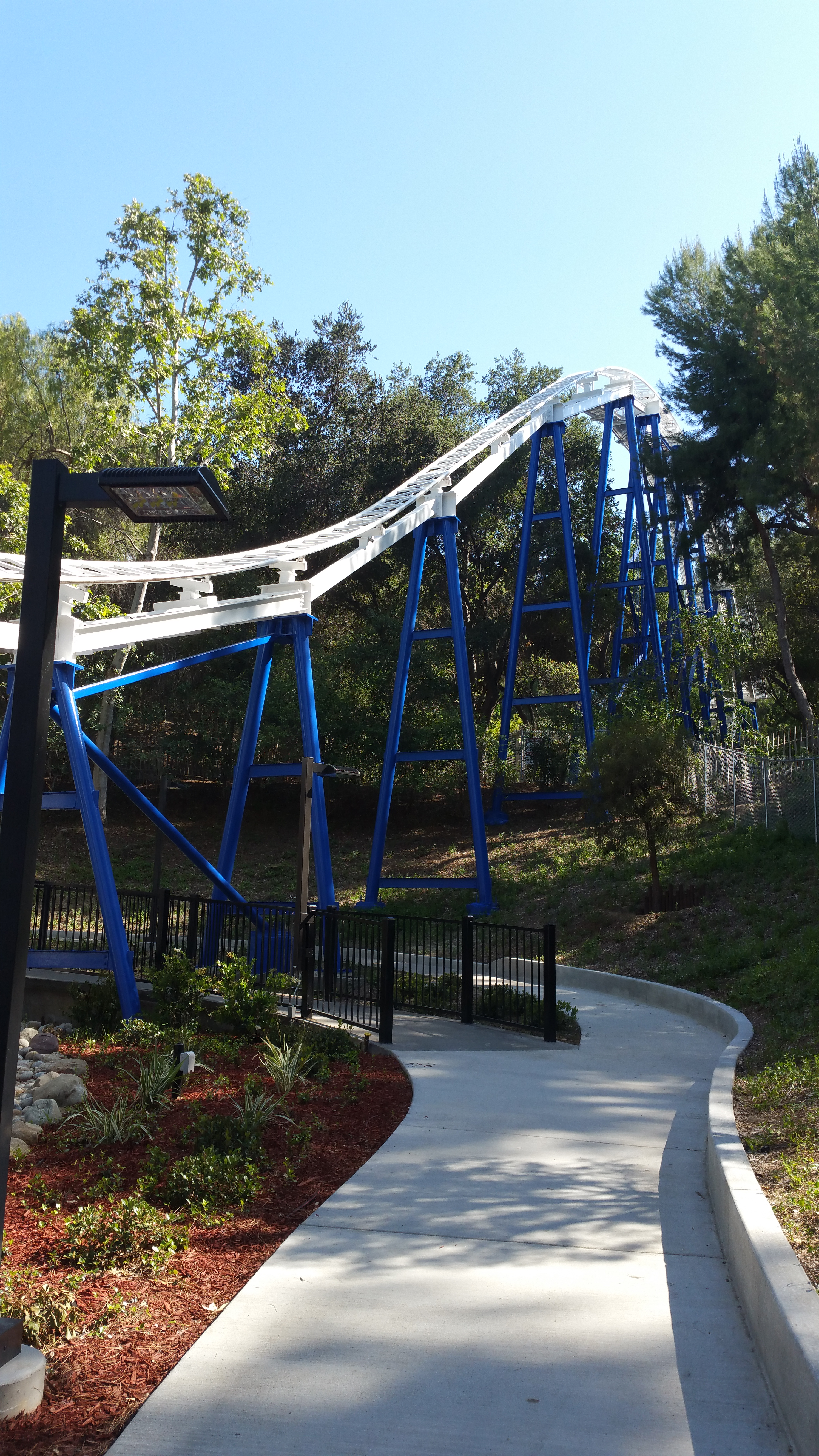 Second drop